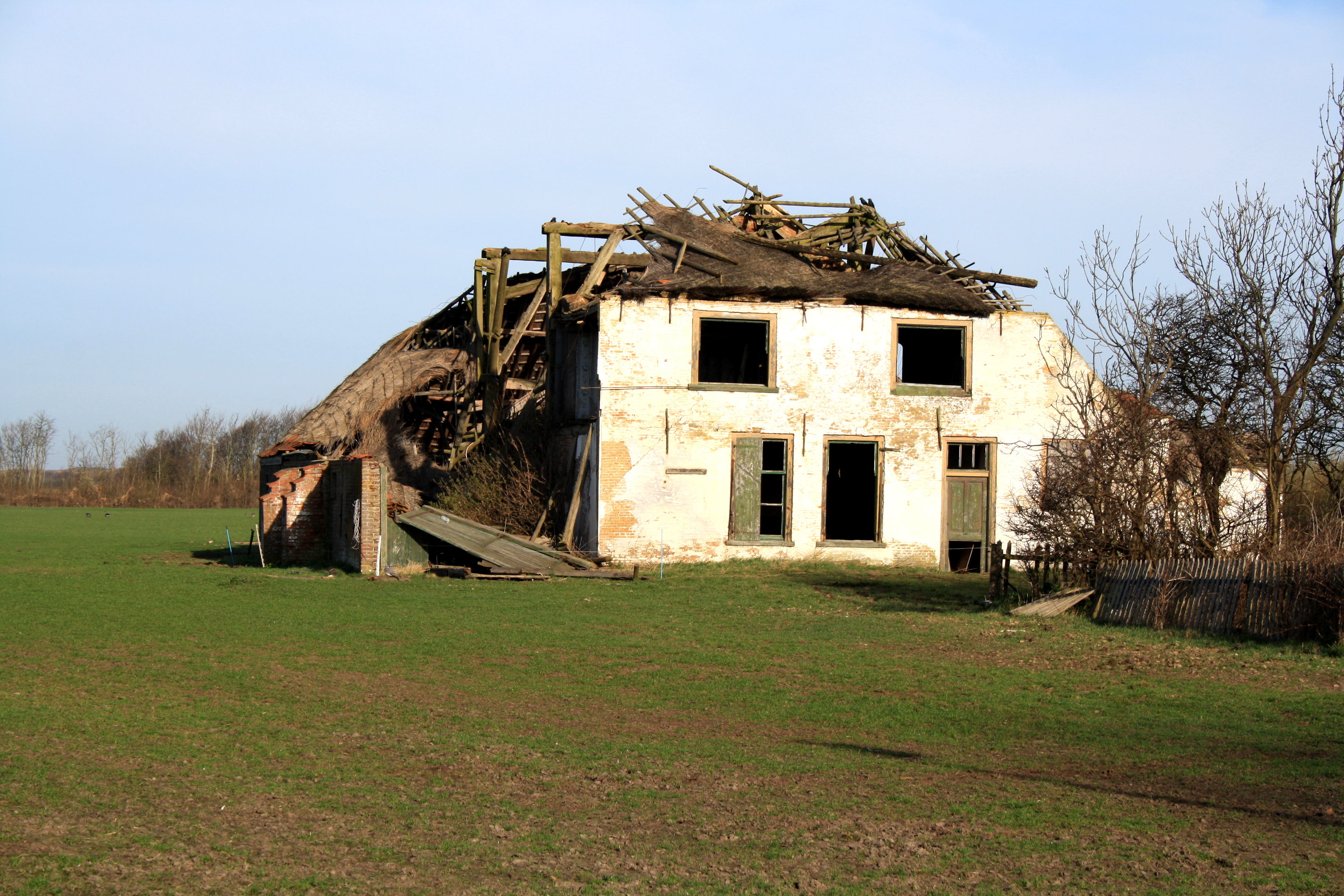 Former farmhouse on the island Texel in the Netherlands - build in 1689 - Farmhouse was unique because they has build a watchtower on the roof to guard the cattle in de marh